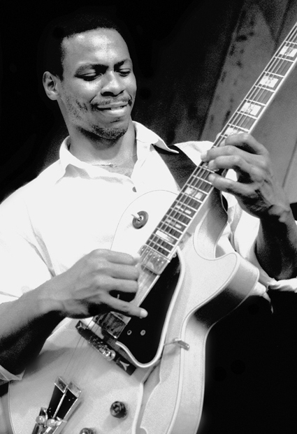 Kevin Eubanks at Bach Dancing & Dynamite Society, Half Moon Bay CA Oct. 1988. Photo by Brian McMillen /